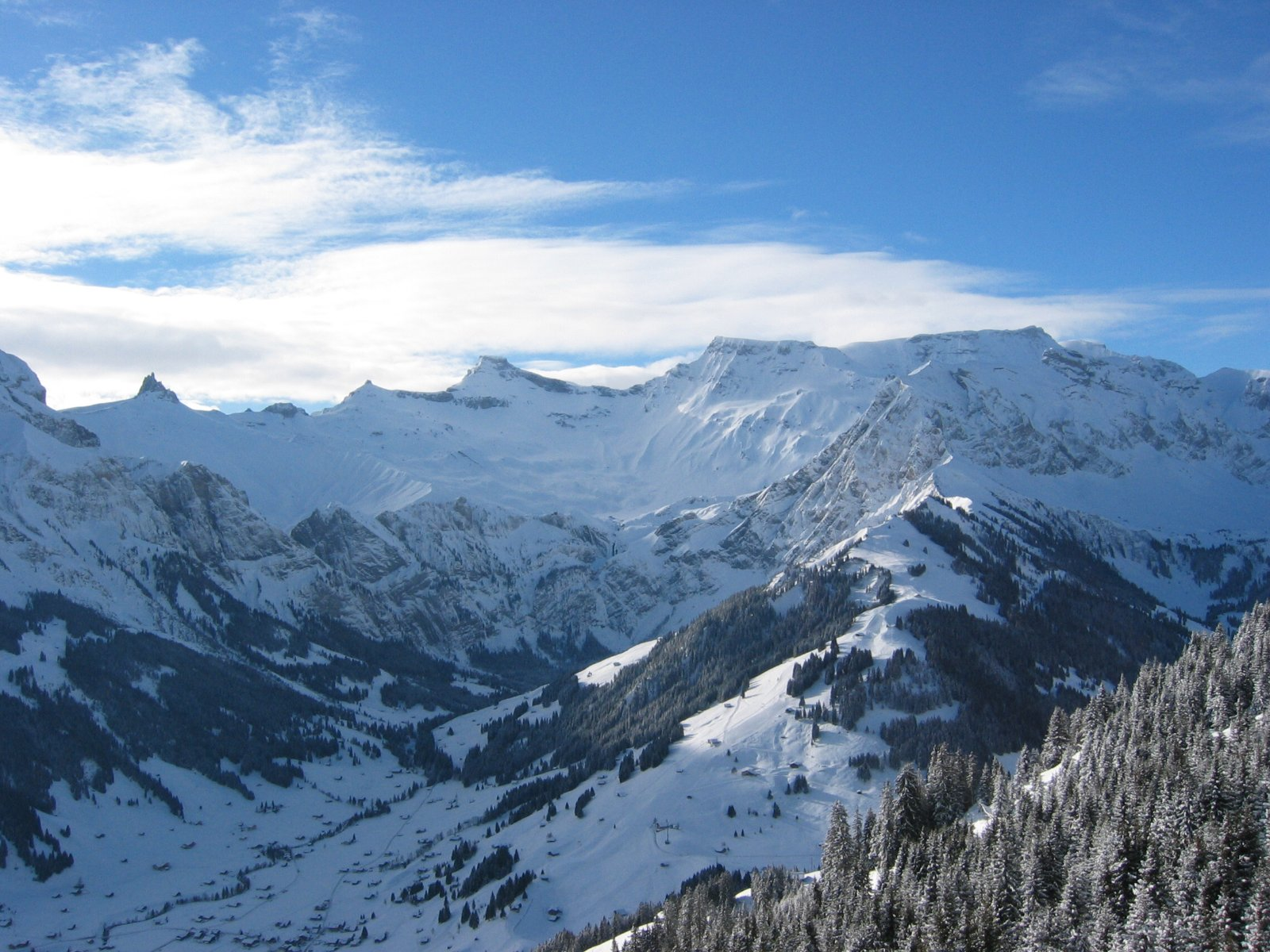 valley of Engstligen south of Adelboden, with Wildstrubel and Steghorn. Shot taken from: Tschentenalp